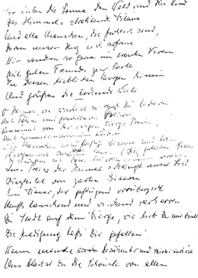 Score of Leni Timmermann's song "Marsch".